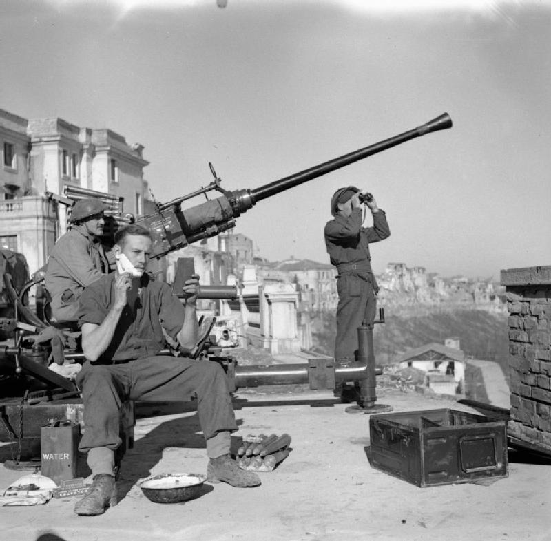 Canadian Forces in Italy 1944 Gunner Howard Potter has a shave near his 40mm Bofors anti-aircraft gun, while other members of the crew scan the skies over Ortona, January 1944.